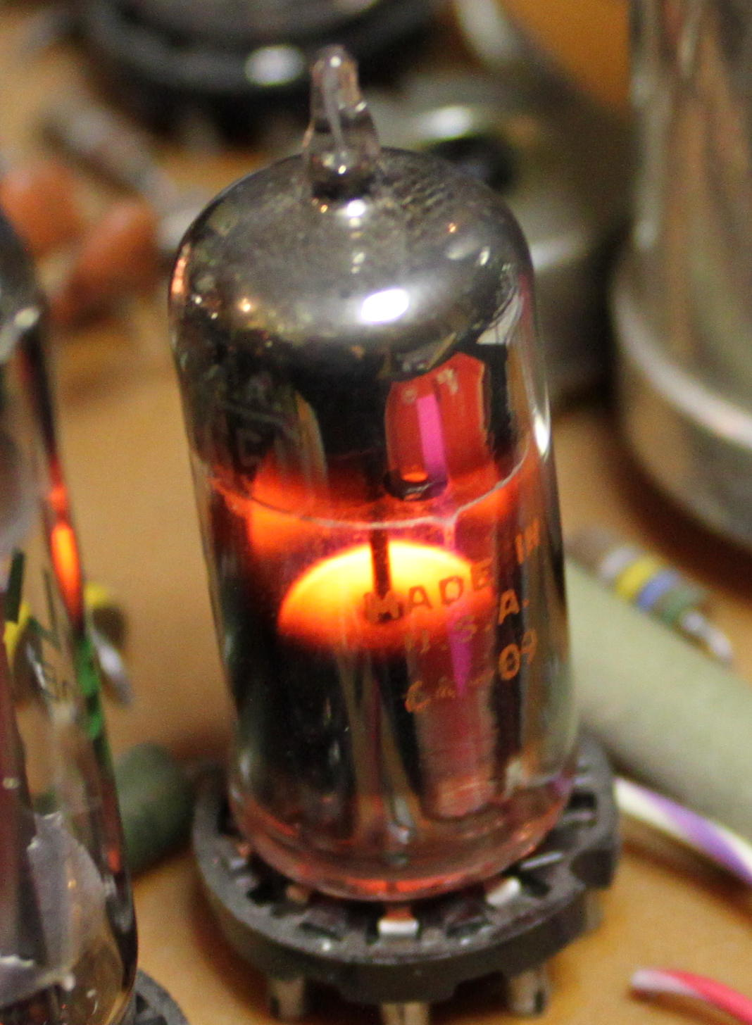 Photo of a 5651 voltage-regulator tube in operation in an old piece of electronic equipment